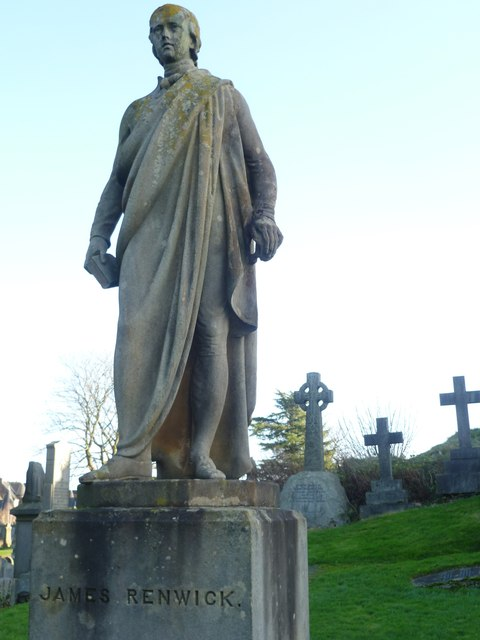 James Renwick statue, Old Town Cemetery